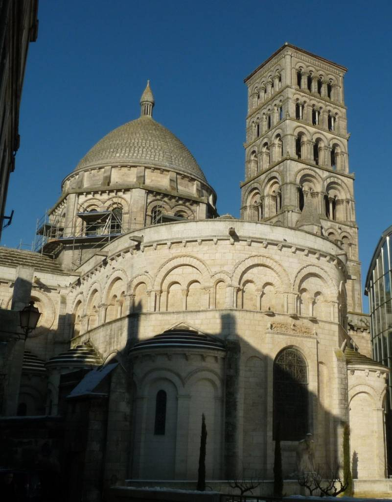 Back of St-Pierre Cathedral of Angoulême, France